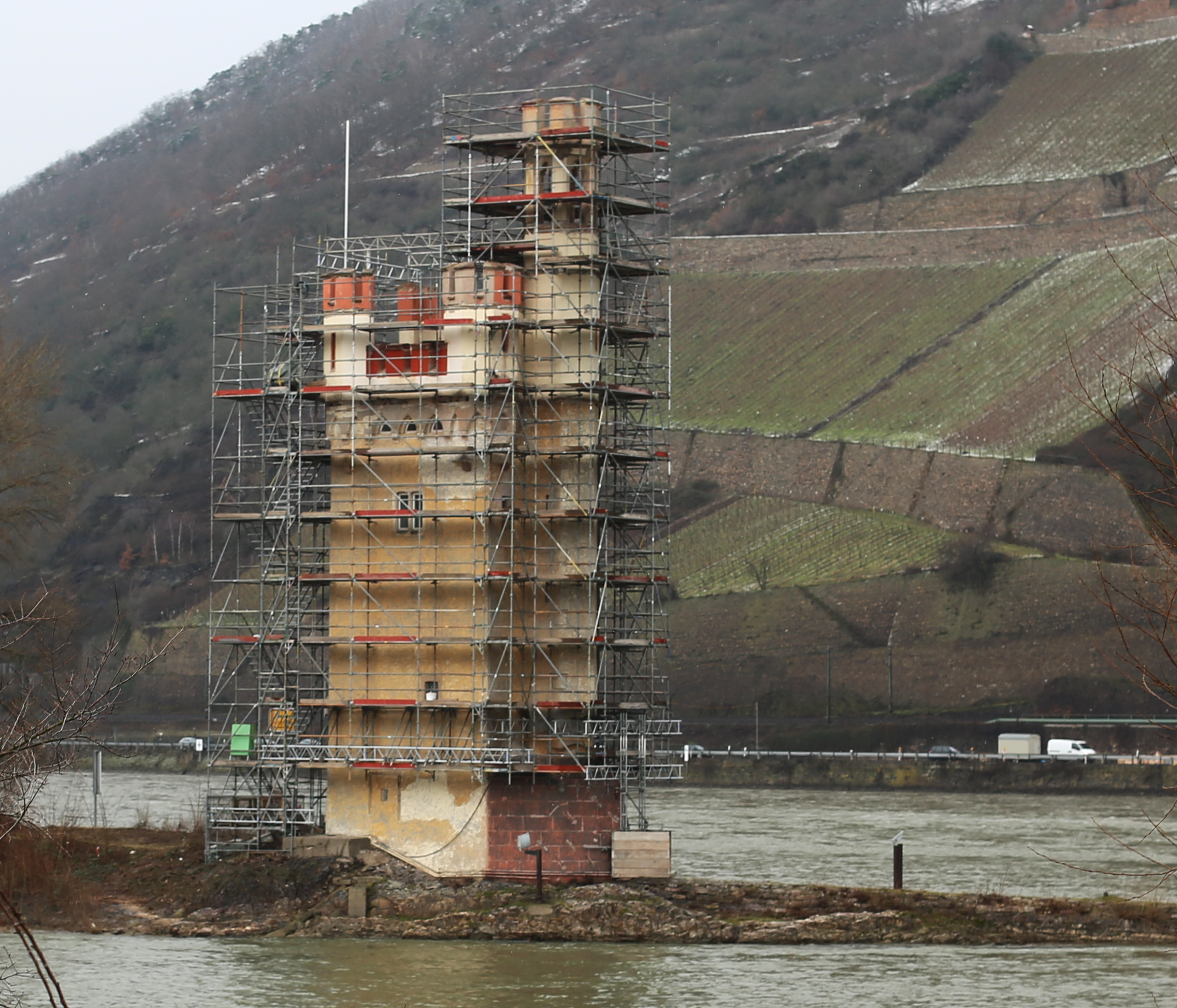 Mouse Tower, near Bingen (Bingerbrück) at the mouth of river Nahe into the Rhine, Rhineland-Palatinate, Germany